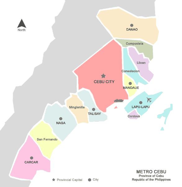 Map of Metro Cebu